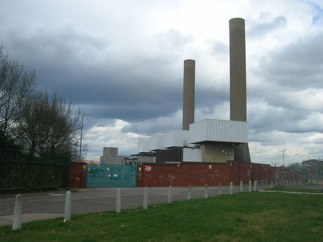 Taylor's Lane Power Station, Leicester Road, NW10